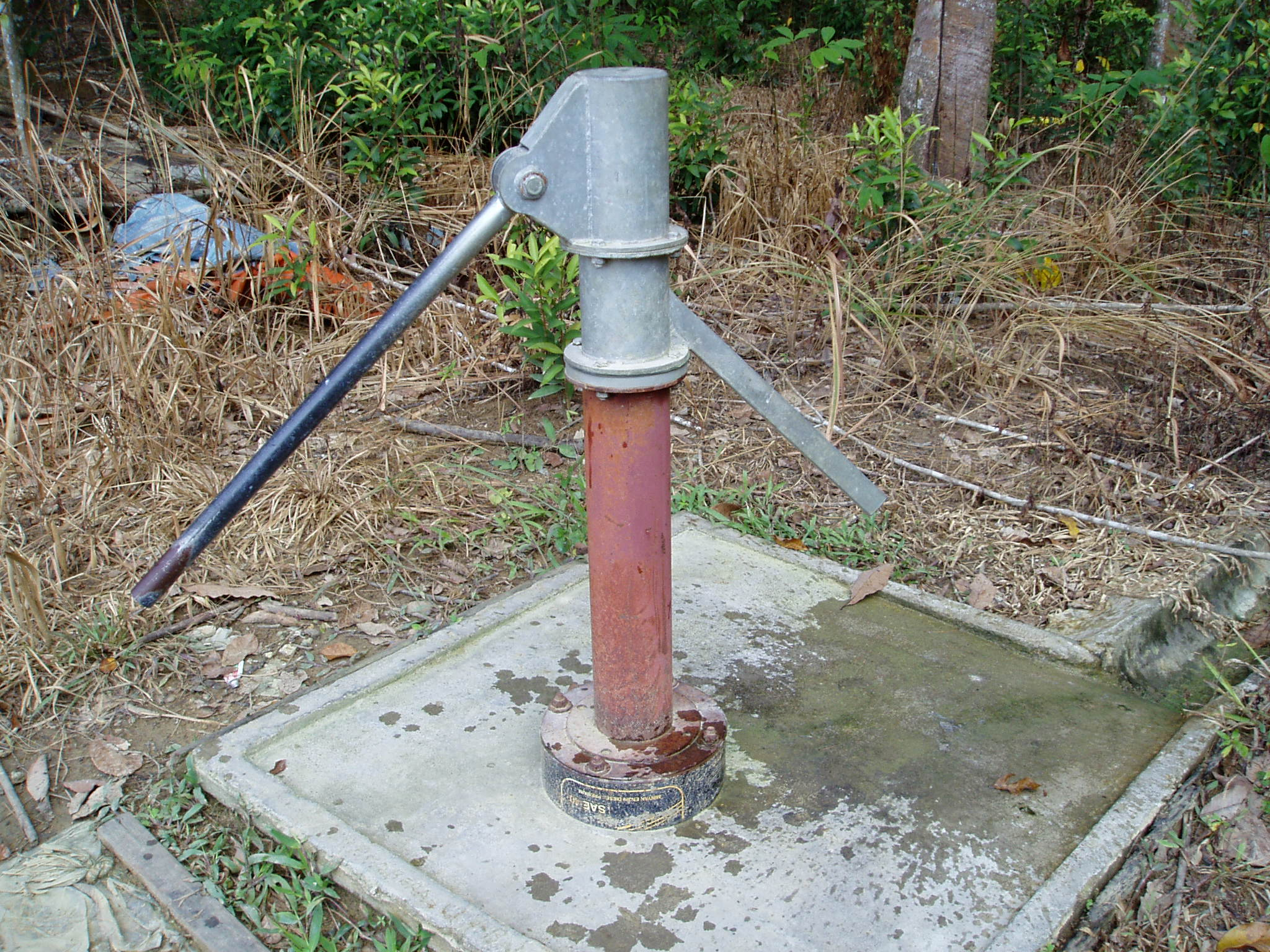 Water pump